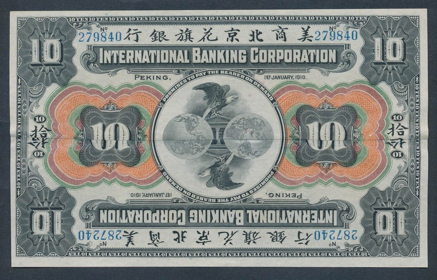 A rejoined banknote issued by the American International Banking Corporation for circulation in China under the rule of the Manchu Qing Dynasty.